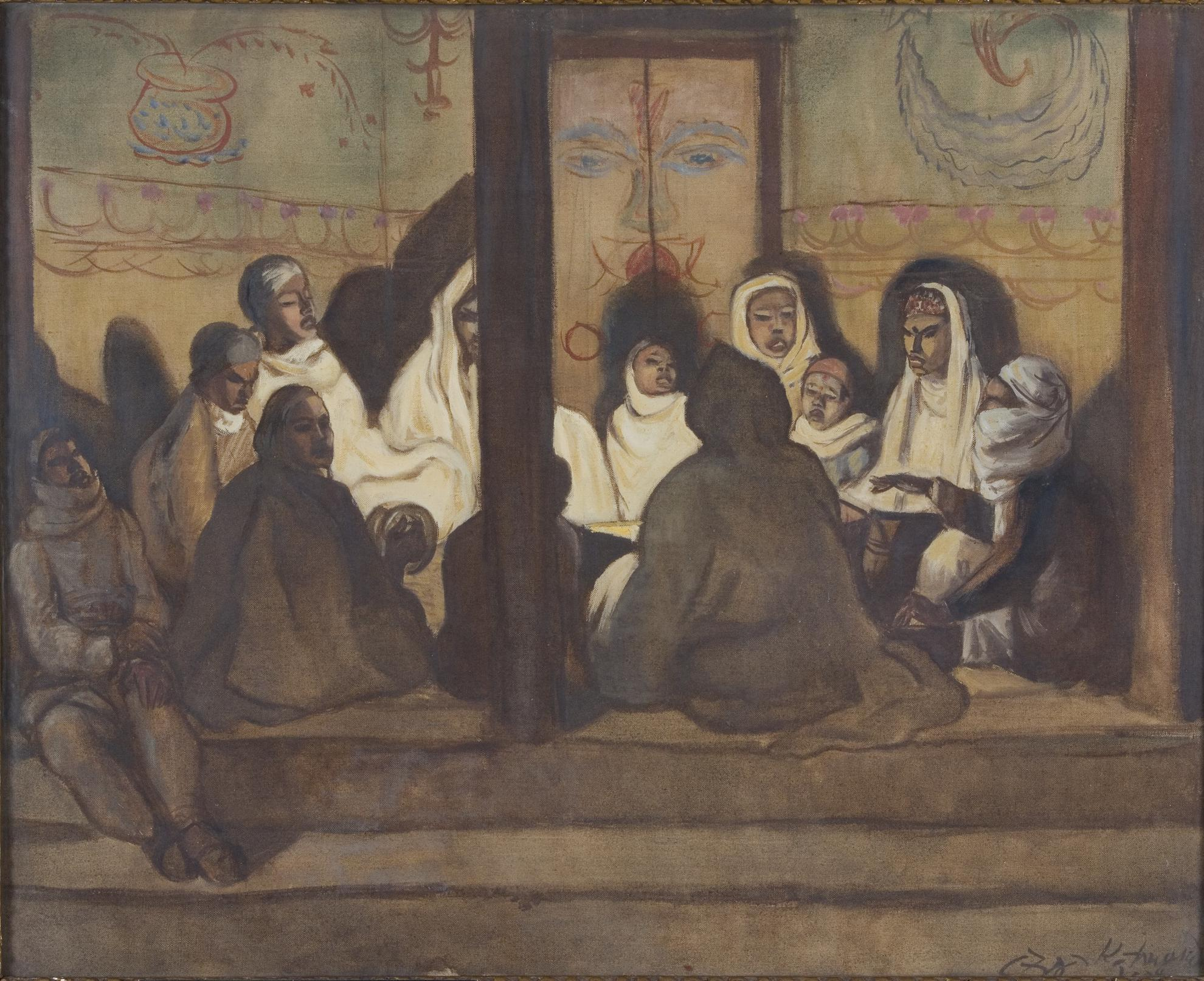 'Music for Ganesha' by Charles Freegrove Winzer; now in the National Museum Wales, to whom it was donated by Evan Morgan, 2nd Viscount Tredegar. Both painting and frame are inscribed 'Kathmandu Nepal'.